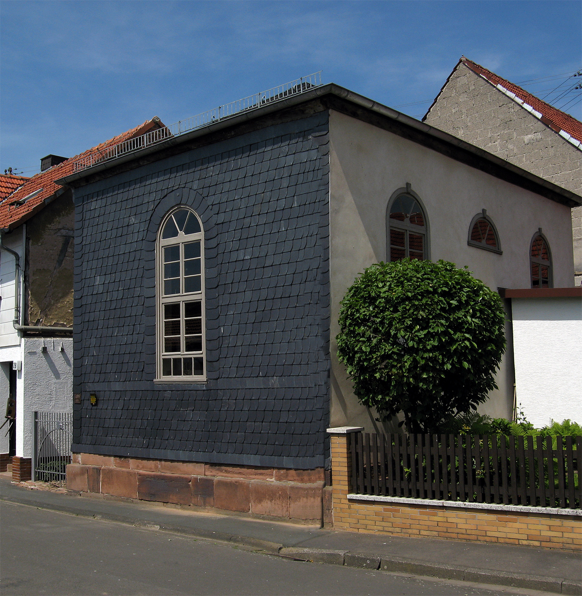 The Synagogue of Roth